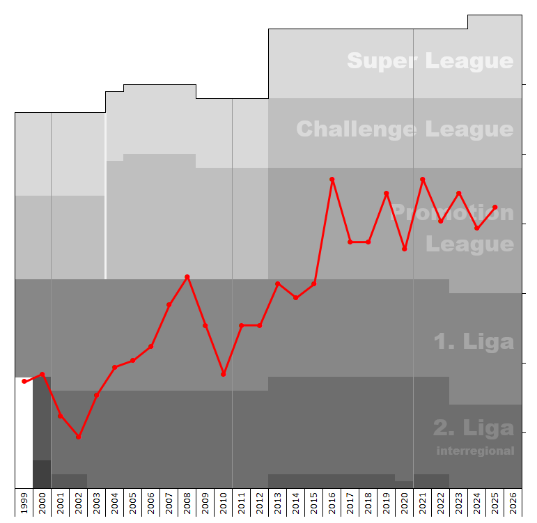 Chart of end-season table positions of SC Cham in the Swiss football league system. Data source: RSSSF, , football.ch